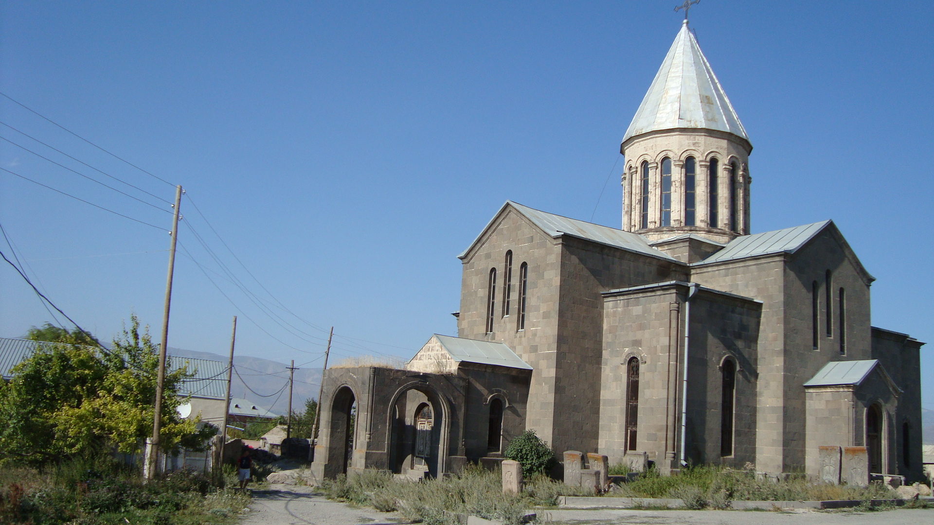 A church. Location: Vardenis, Gegharkunik marz (region), Republic of Armenia.